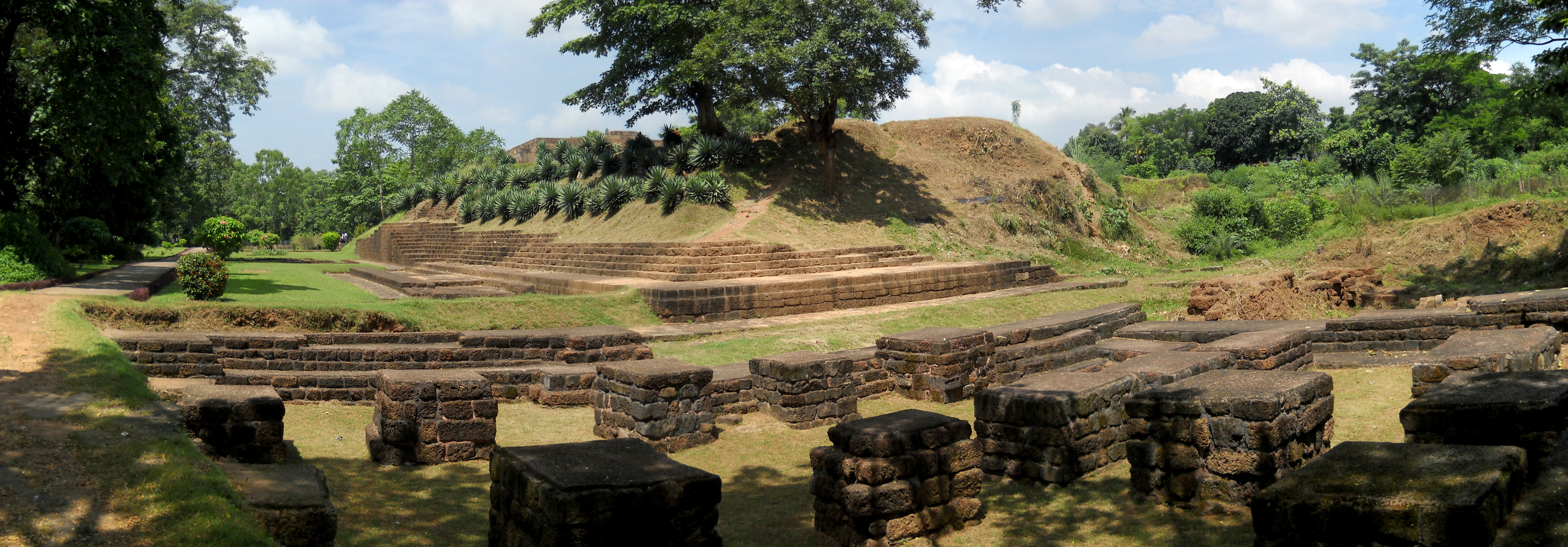 Barabati durga Cuttack Barabati Fort